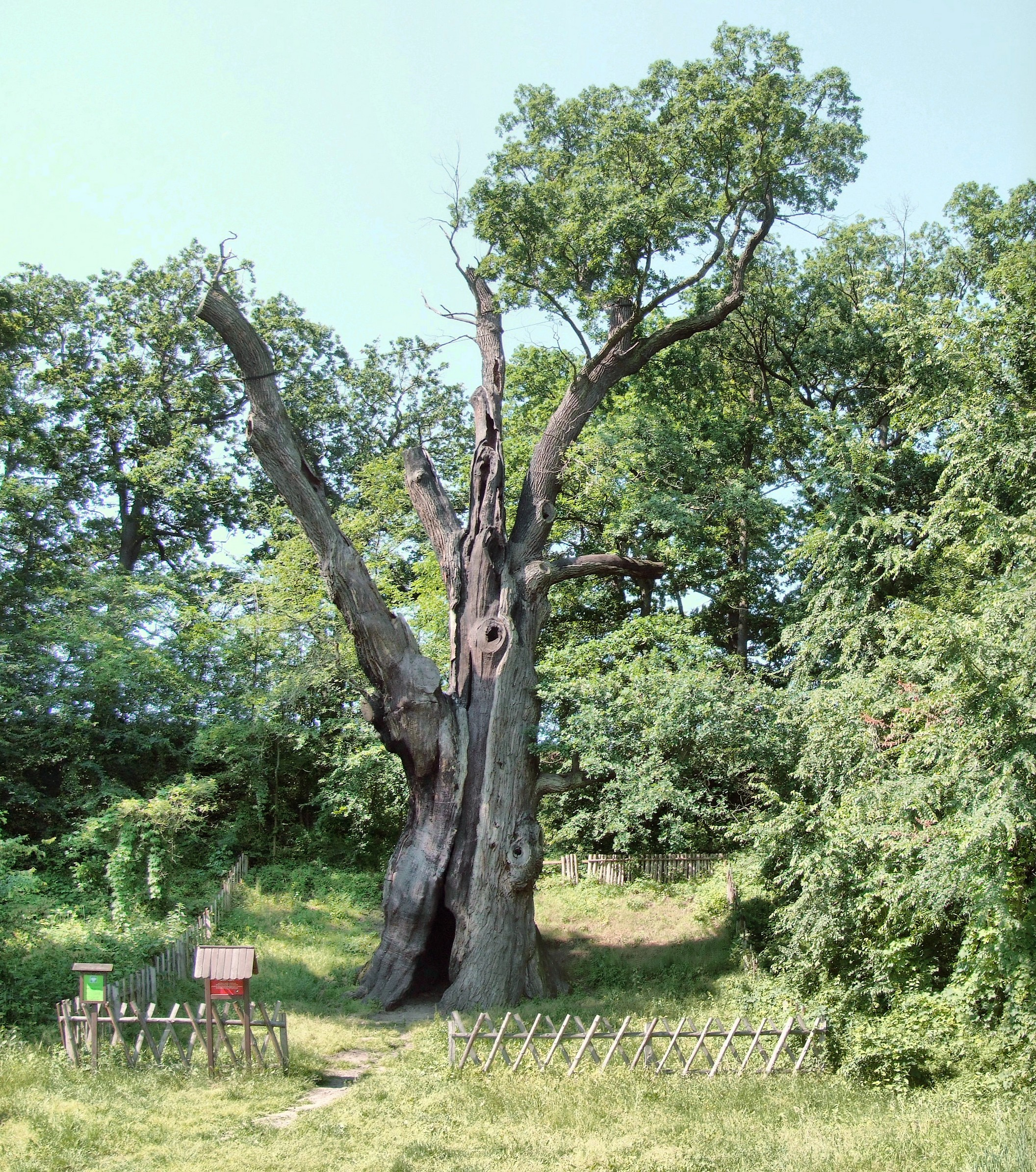 Oak named Napoleon near Zabór, Poland